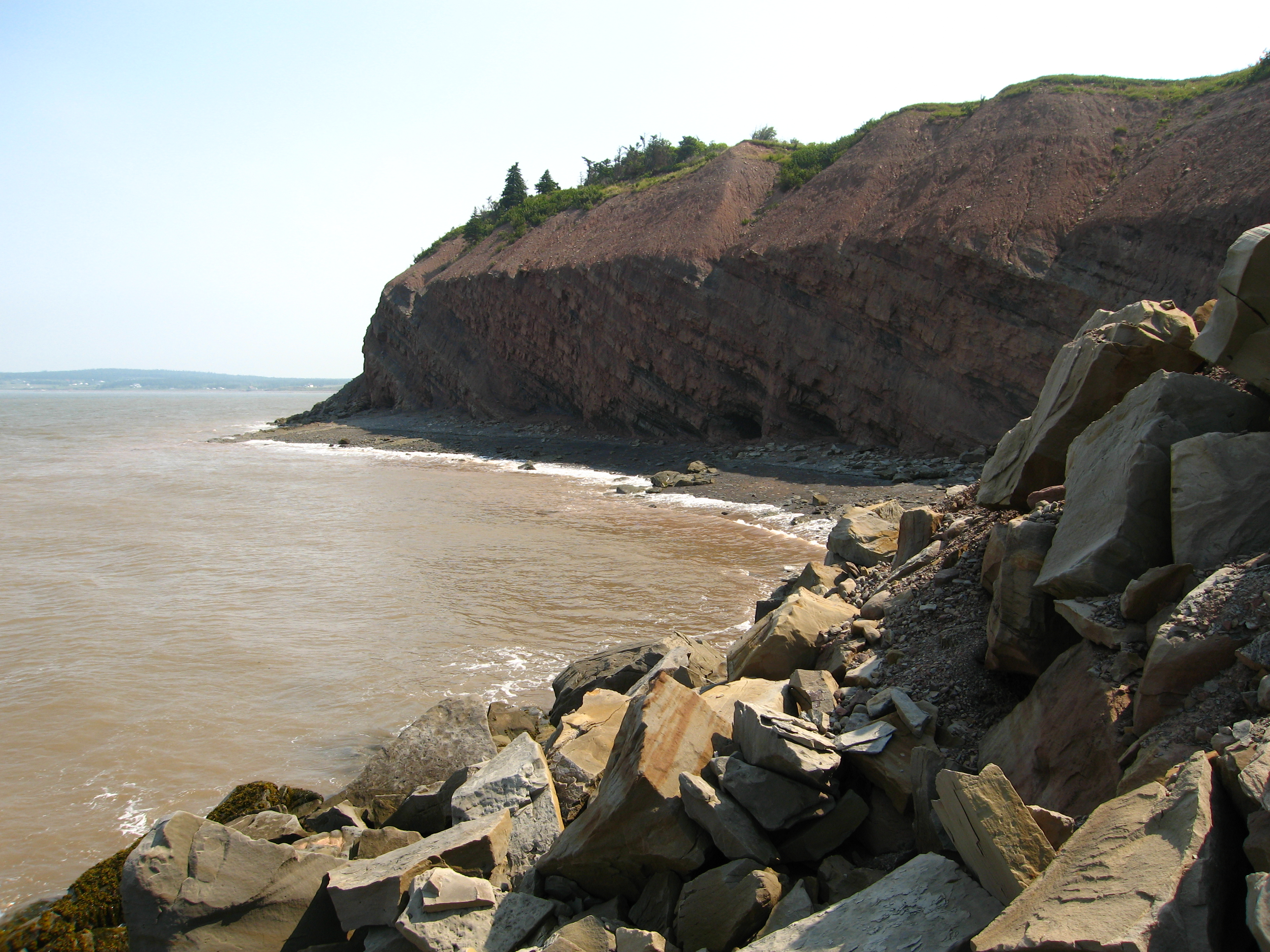 Small part of the Joggins Fossil Cliffs World Heritage Site on the Chignecto Bay of the Bay of Fundy, just north of Coal Mine Point, near Joggins, Nova Scotia. The rocks exposed in the cliff mainly comprise sandstones of the higher part of the Joggins Formation, Pennsylvanian of the Cumberland Basin. The tilted beds of the Joggins-Formation are discordantly overlain by a thick reddish layer of a Quaternary glacial deposit (till).